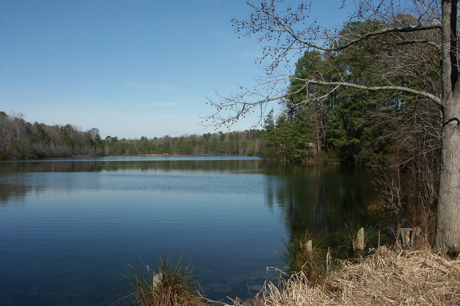 Sandy Bottom Nature Park - Lake